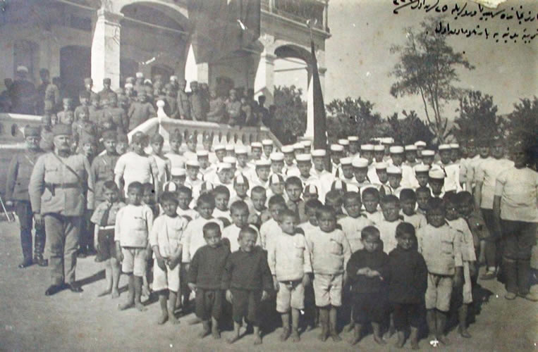 Kiazim Karabekir Pasha and his staff at Erzindjan in 1923